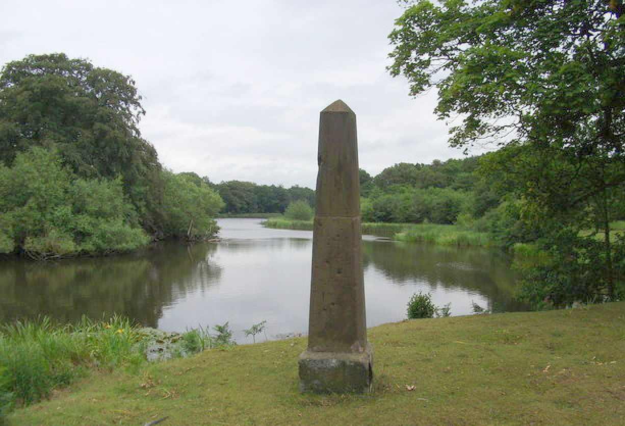 Photograph of the Obelisk in the grounds of Rode Hall, Odd Rode, Cheshire